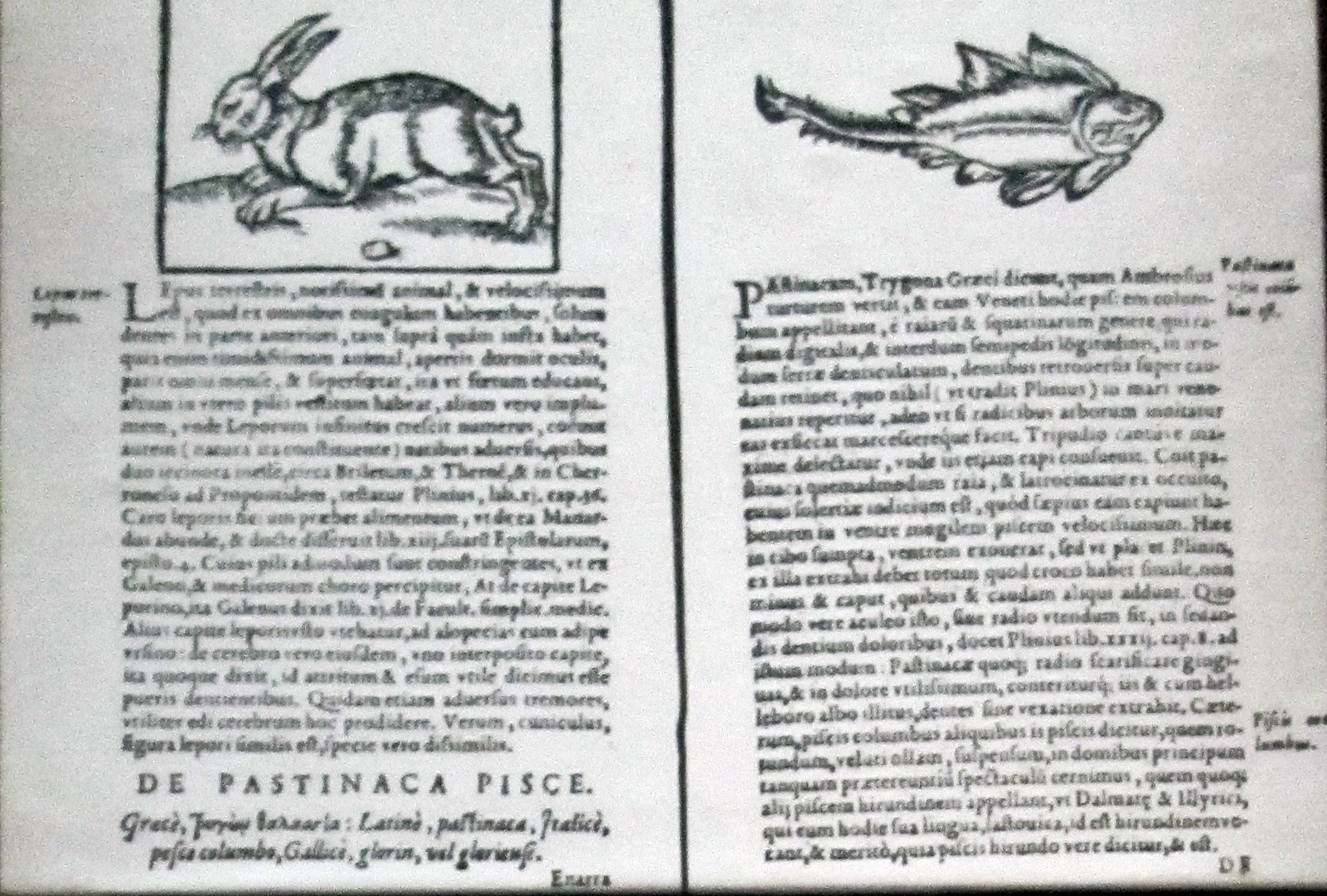 Page from Amatus Lusitanus' "In Dioscorides Enarationes", Lyons, 1558 The book is a commentary on Dioscorides' work "Materia Medica"